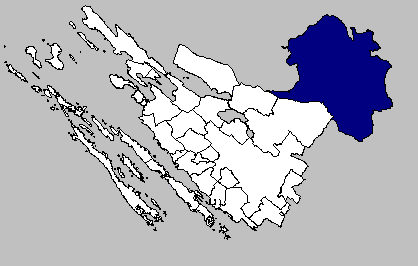 Self-made map of the Gračac municipality within the Zadar County.